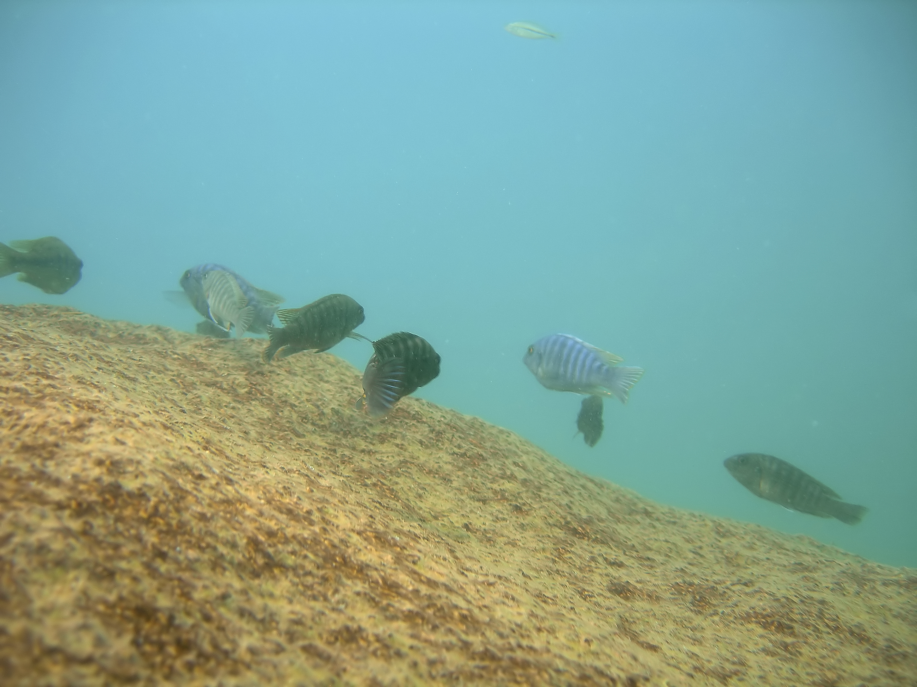 Cichlids in the wild in Lake Malawi. Like snorkling in somebody's aquarium. GeoTagged Cichlids in the wild - DSCN1965